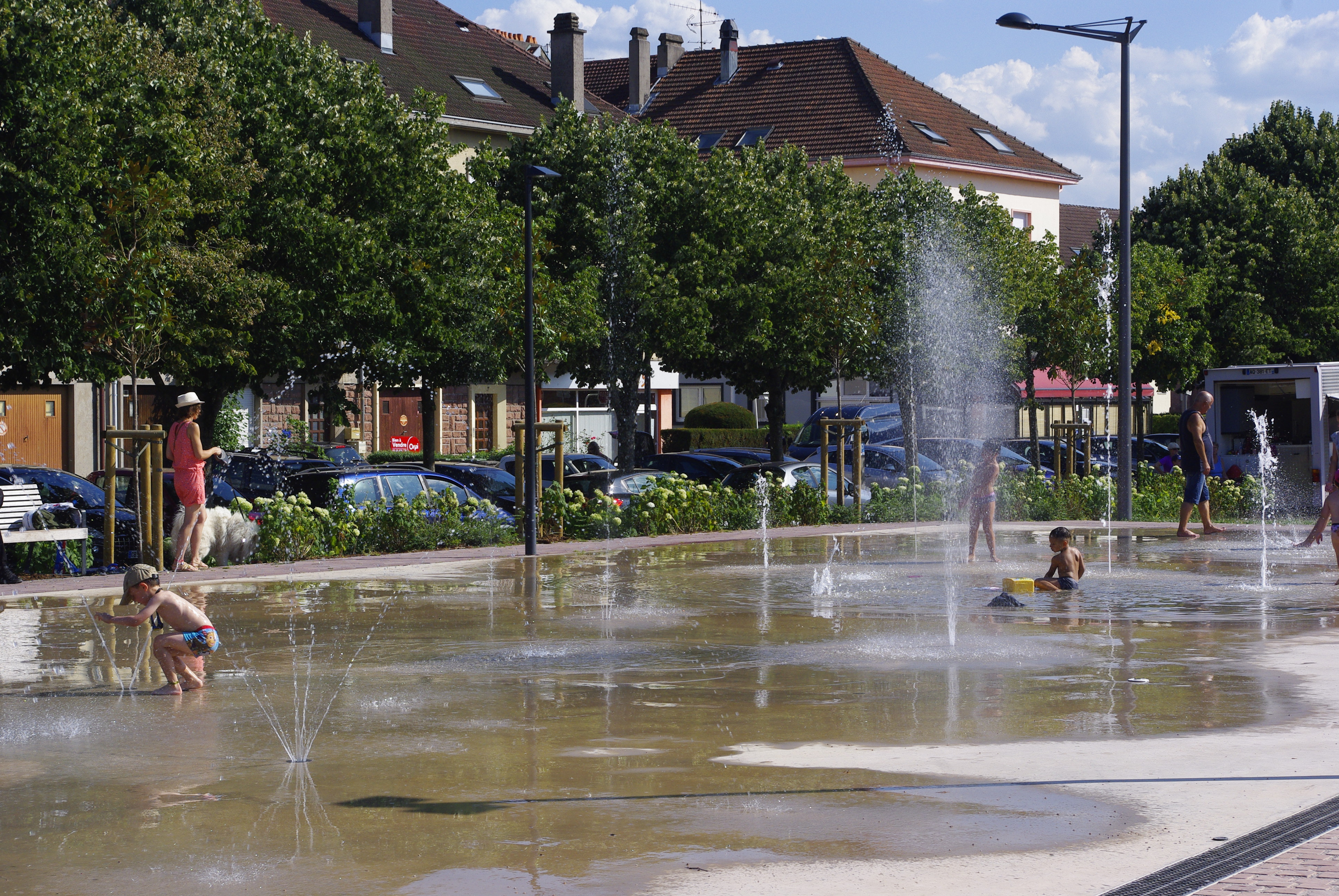 Playful water jets (St-Dié-des-Vosges/Lorraine/France - Summer 2019)